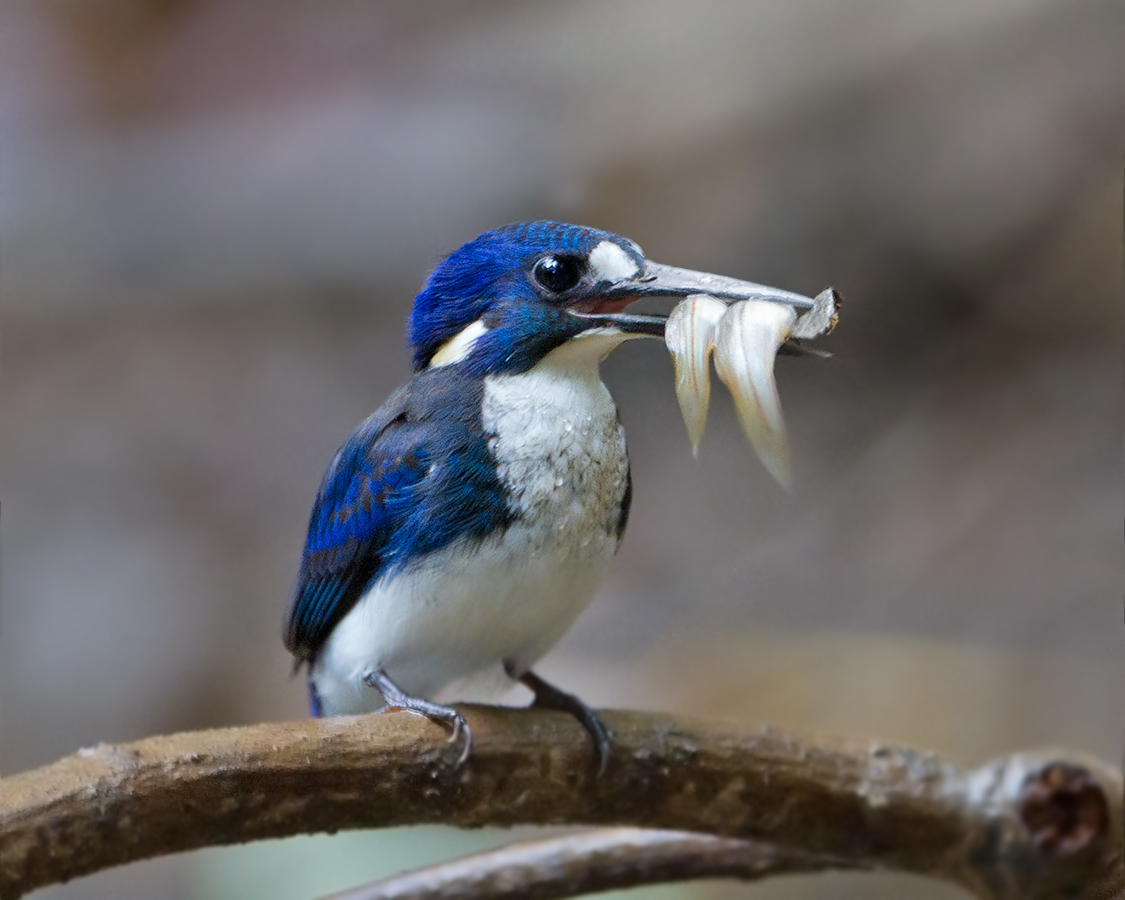 Little Kingfisher (Alcedo pusilla), Daintree Village, Queensland, Australia